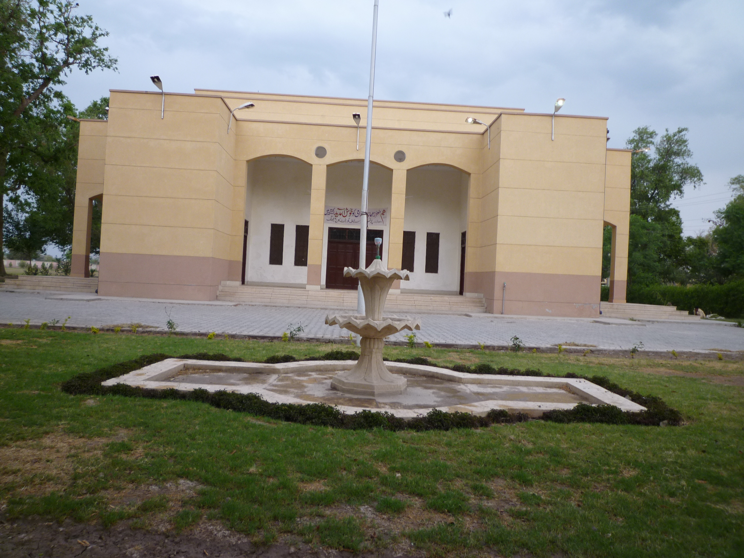 govtcollege jhang